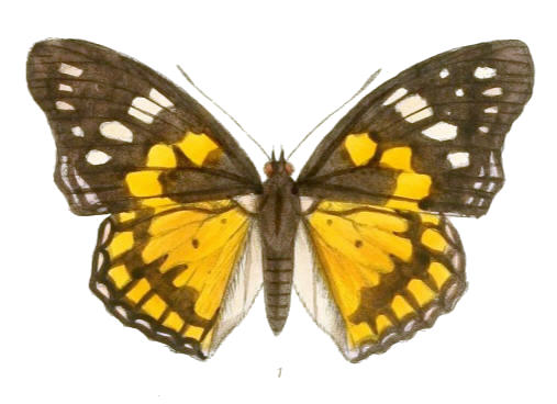 Sephisa chandra